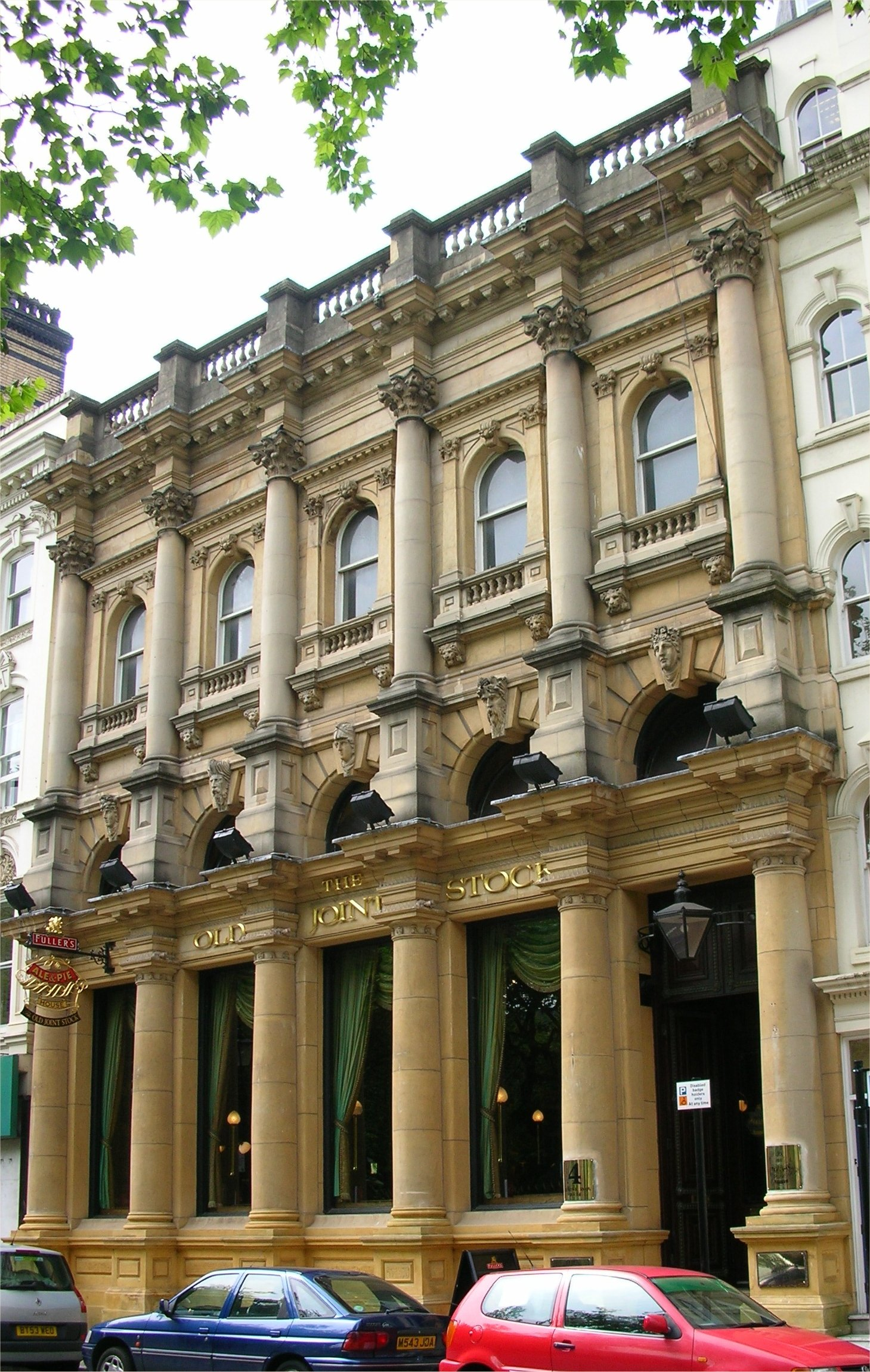 The Old Joint Stock pub, formerly Lloyds Bank, originally the Joint Stock Bank, 4 Temple Row West, Birmingham, England. 1862-4, architect J. A. Chatwin. Photographed 6 June 2006.